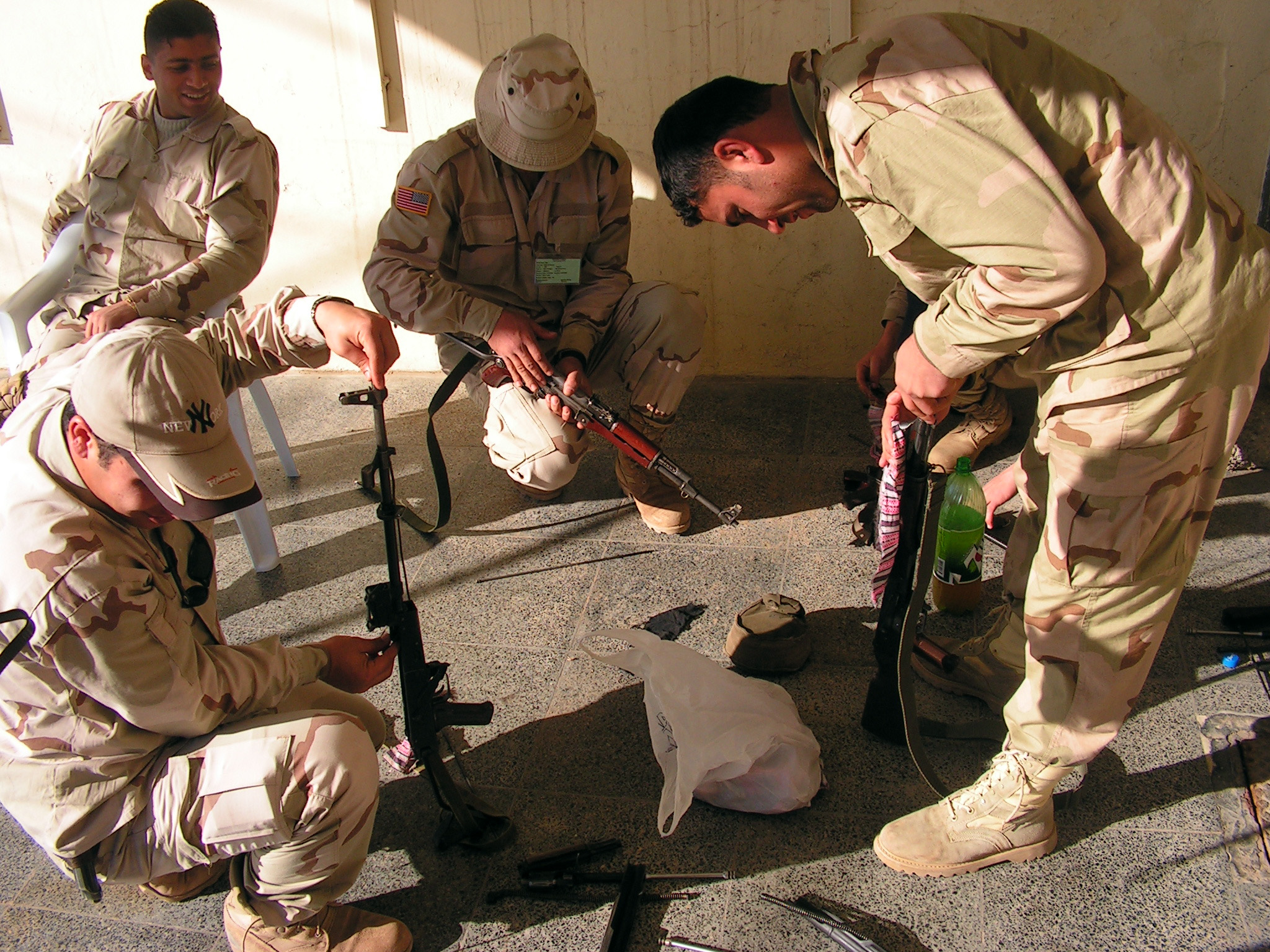 Peshmurga Kurdish Militia, cleaning and maintaining weapons at USACE villa, Erbil Kurdistan.